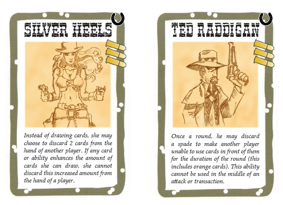 Another sample of characters from the Robber's Roost unofficial expansion to BANG! the card game.